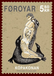 Stamp FO 580 of the Faroe Islands: The Seal Woman (kópakonan)